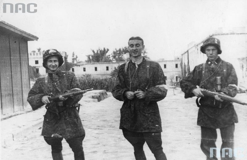 Polish Home Army soldiers from Battalion "Zośka" in the beginning of Warsaw Uprising after successful attack and liberation of Gesiowka, a German Camp for Jews in Warsaw. In the center Stanisław Kozicki "Howelera" and on the right Wacław Cyniak "Orlicz" [note: Please do not confuse him with another Home Army soldier Michał Światopełk-Mirski "Orlicz"! The photo from the liberation of Gesiowka does NOT show "Orlicz" Światopełk-Mirski, but "Orlicz" Cyniak].